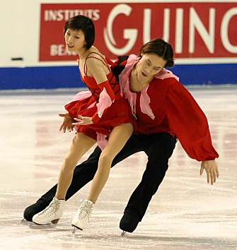 Pang Qing and Tong Jian compete their long program at the 2004 Four Continents Championships in Hamilton, Ontario. Photo taken by me, Vesperholly 05:55, 17 July 2006 (UTC)